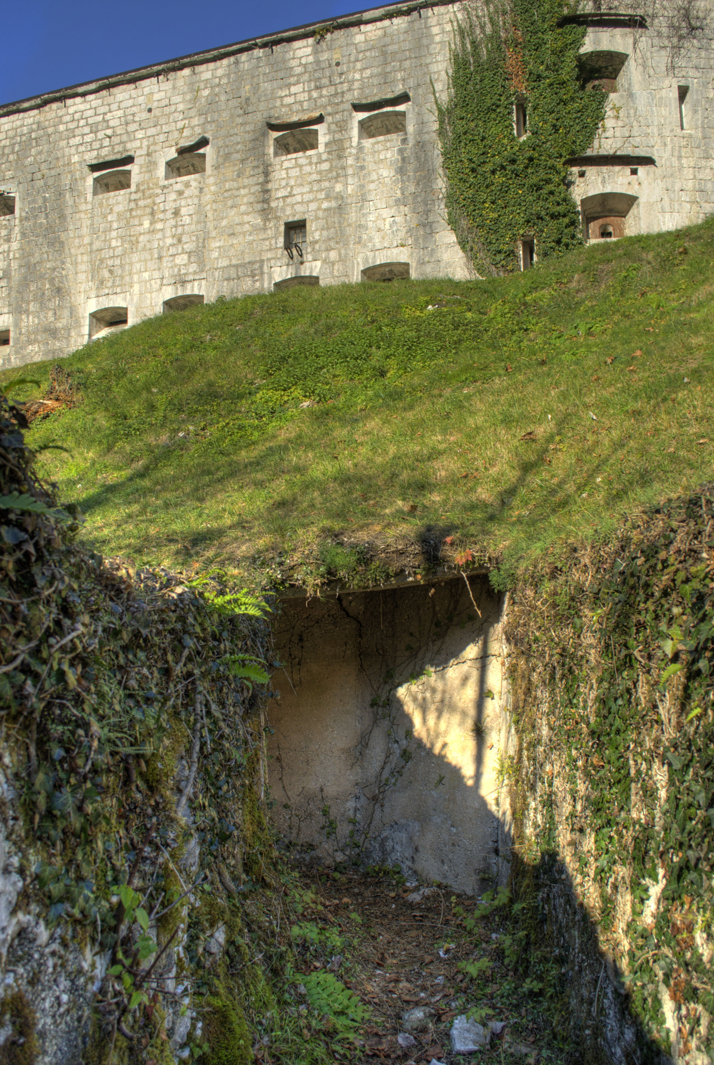 Fort Kluže near Bovec, Slovenia